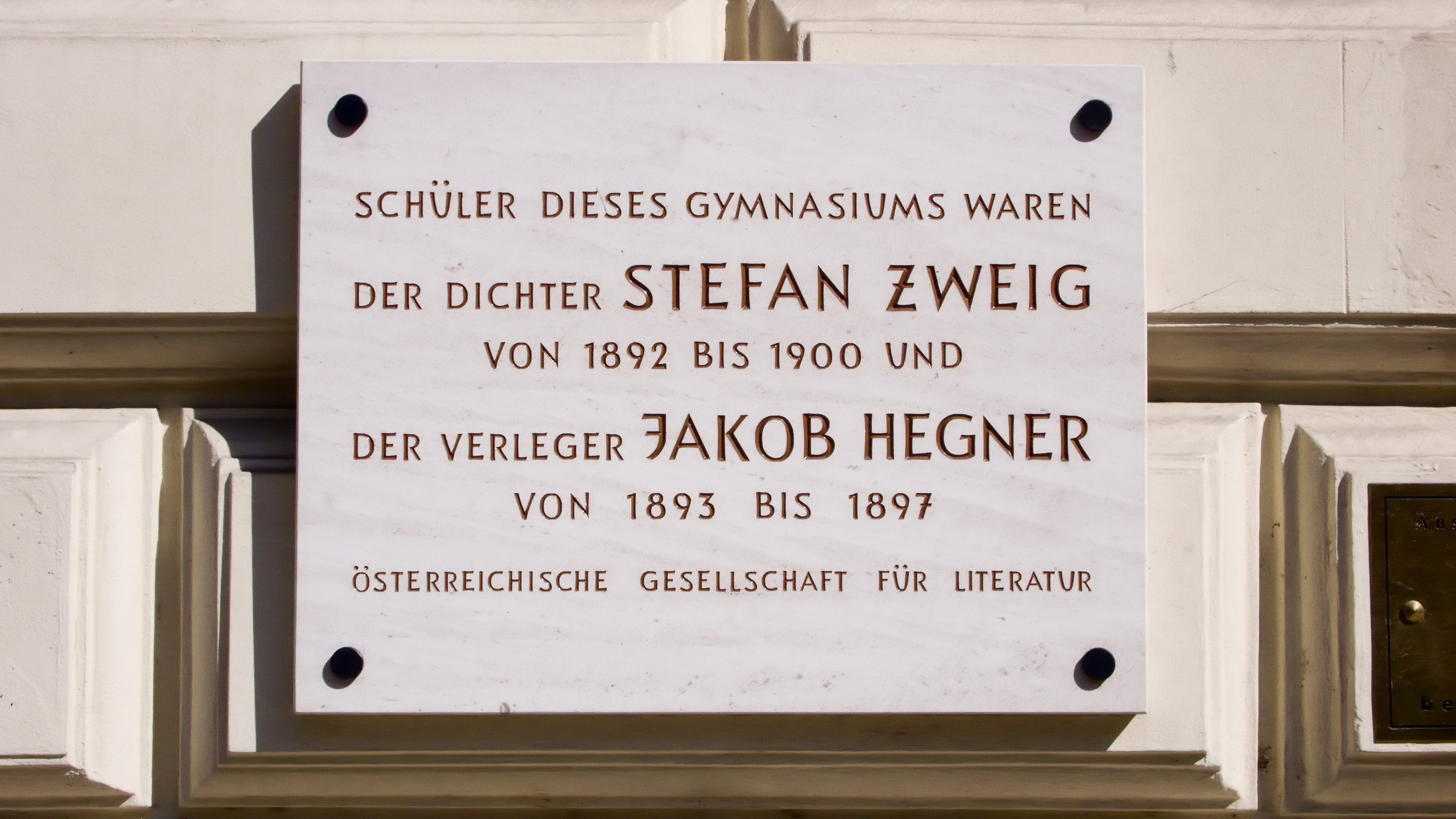 Gymnasium Wasagasse in Vienna Alsergrund